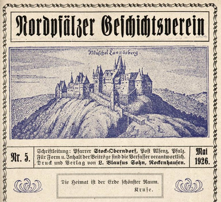 Nordpfälzer Geschichtsblätter, Kopf von 1926, Stich von 1600, (eigene Aufnahme von eigenem altem Heft)